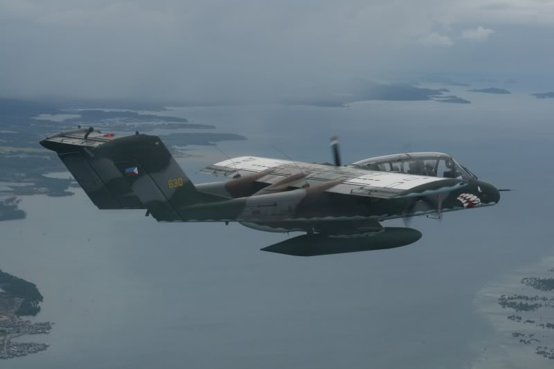 Philippine Air Force OV-10 Bronco in flight.